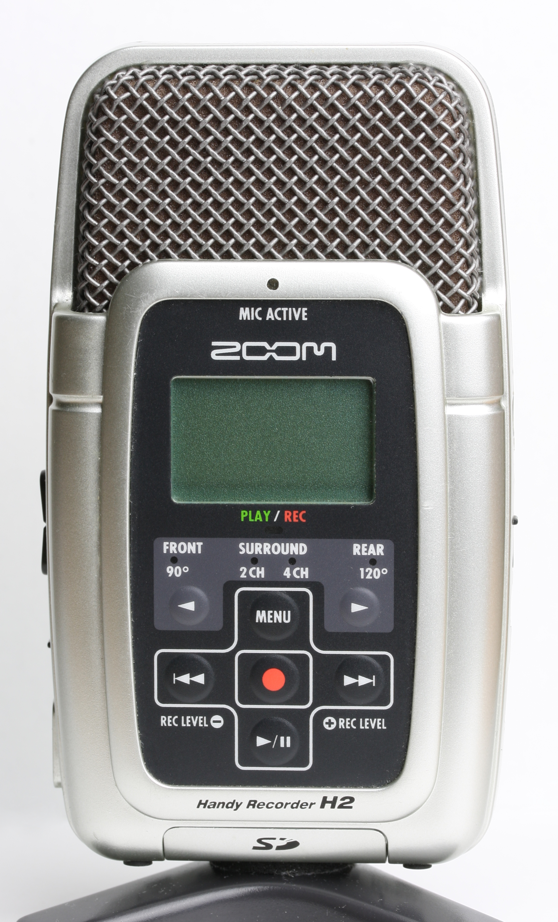 The front of a H2 Digital Recorder by Zoom